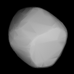 3D convex shape model of 1244 Deira, computed using light curve inversion techniques. J. Hanuš, J. Ďurech, M. Brož, B. D. Warner (June 2011). "A study of asteroid pole-latitude distribution based on an extended set of shape models derived by the lightcurve inversion method". Astronomy and Astrophysics 530: A134. ISSN 0004-6361. arXiv